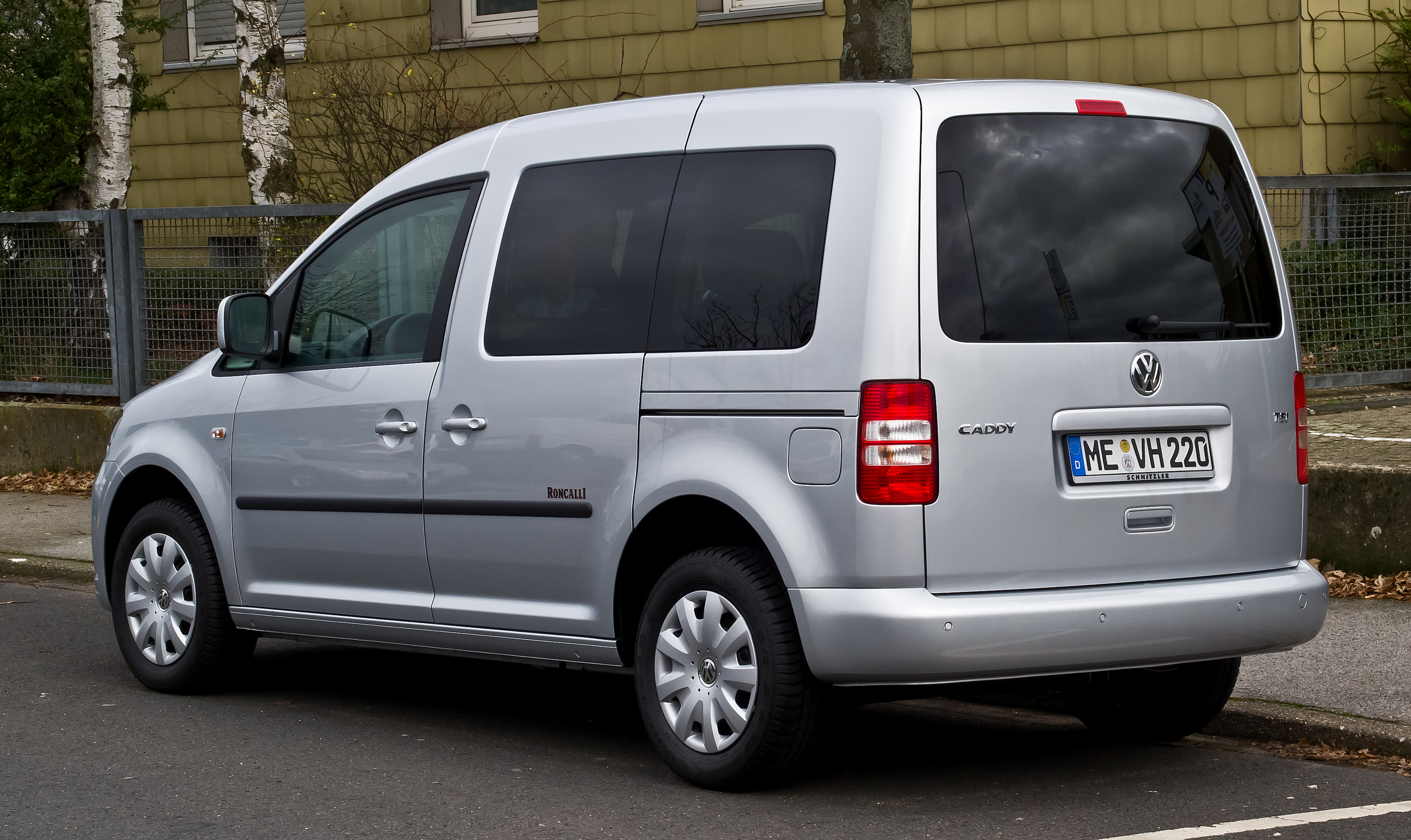 VW Caddy 1.2 TSI Roncalli (2K, Facelift)